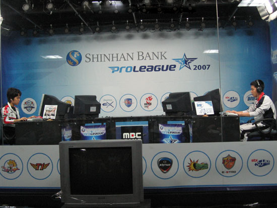 2007 SKY Proleague